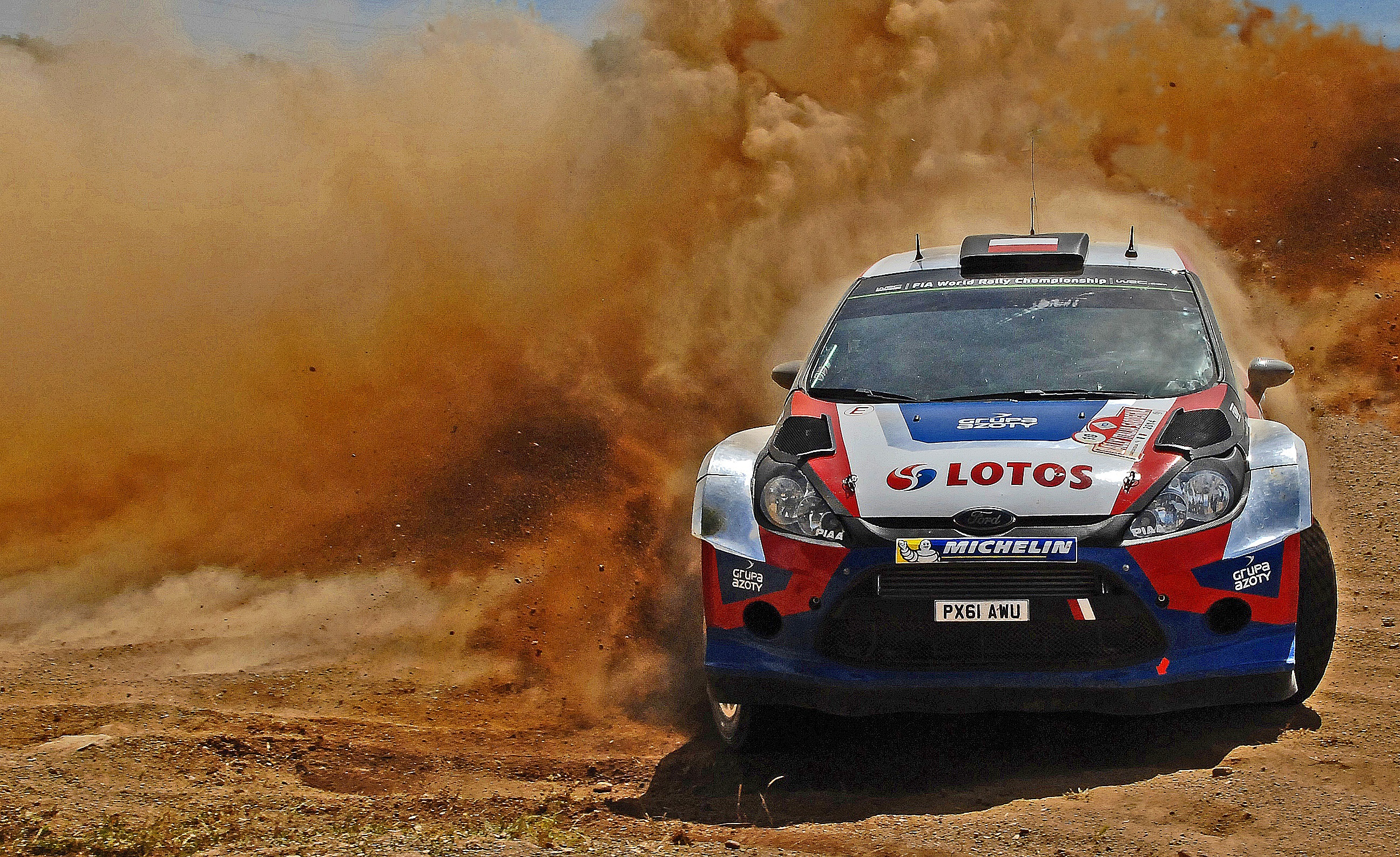 2014 Rally d'Italia Sardegna Robert Kubica